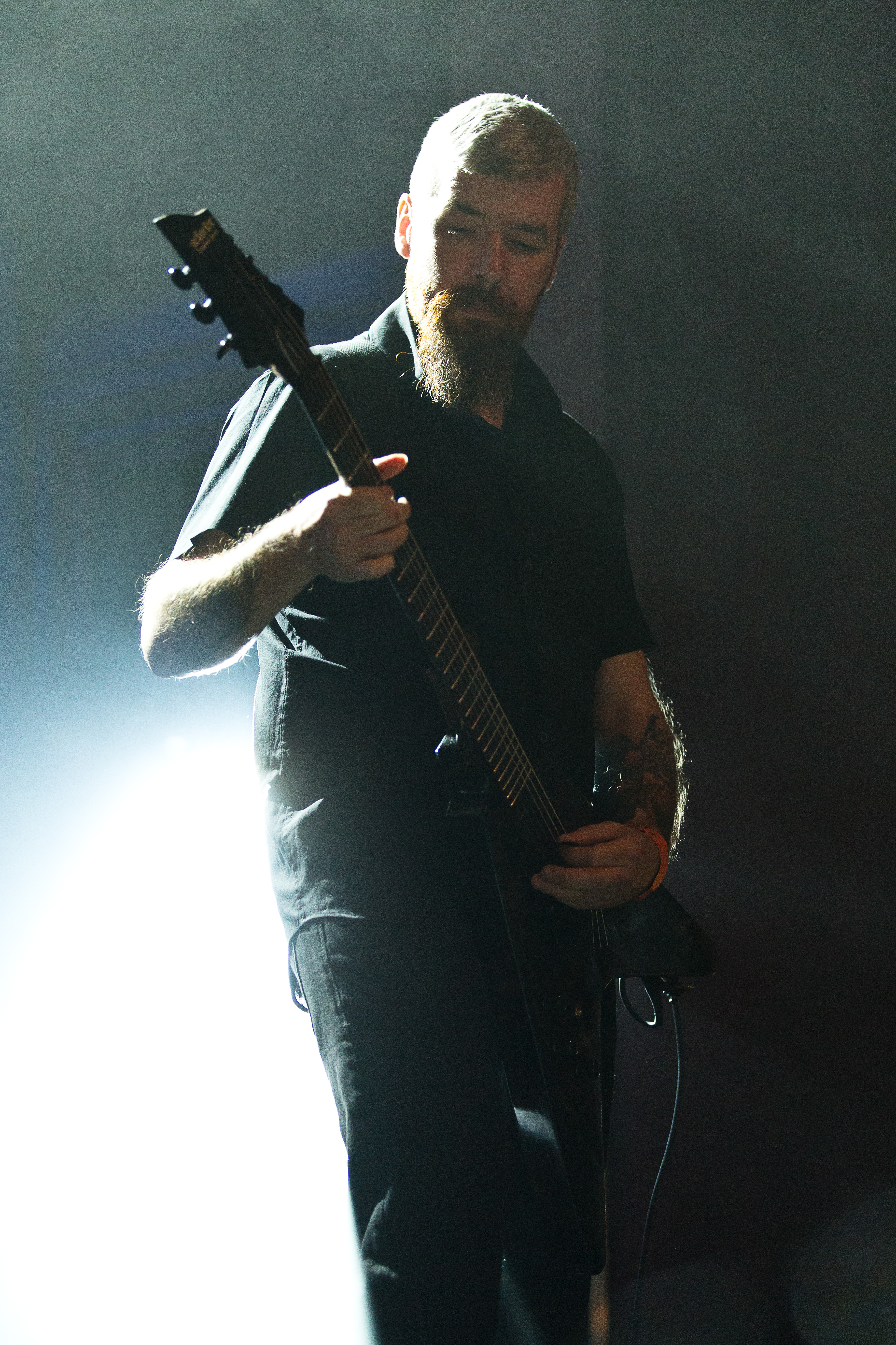 The British doom metal band My Dying Bride at the 25. Wave-Gotik-Treffen 2016 in Leipzig/Germany.